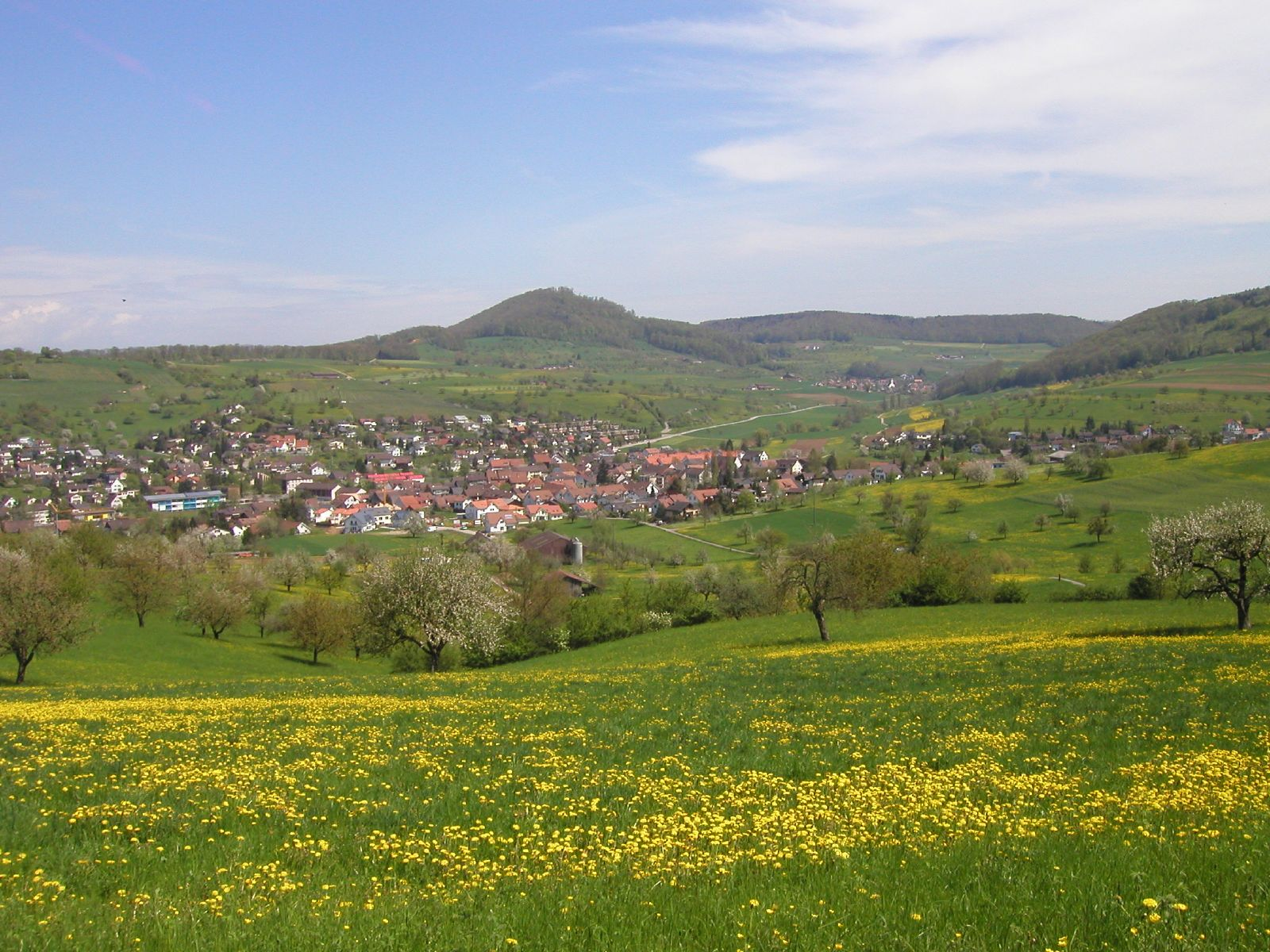 Maisprach, BL, Switzerland in the spring